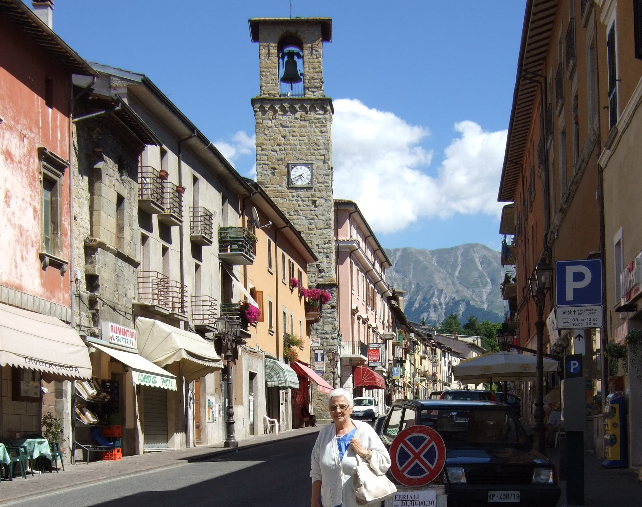 Street of Amatrice in 2008, before the earthquake. With tower of ? ... Mountain in background.